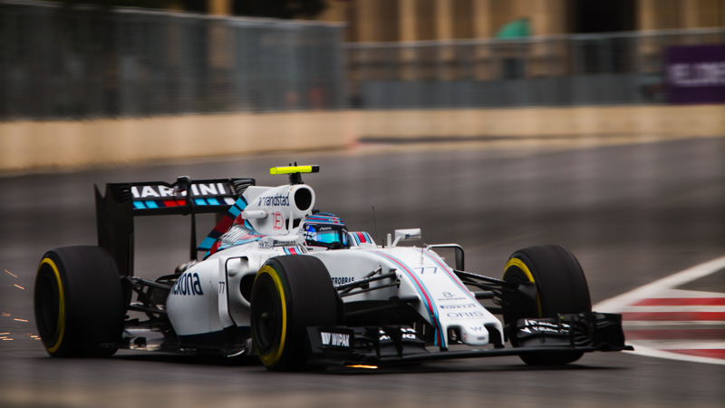 Valtteri Bottas at the 2016 Grand Prix of Europe